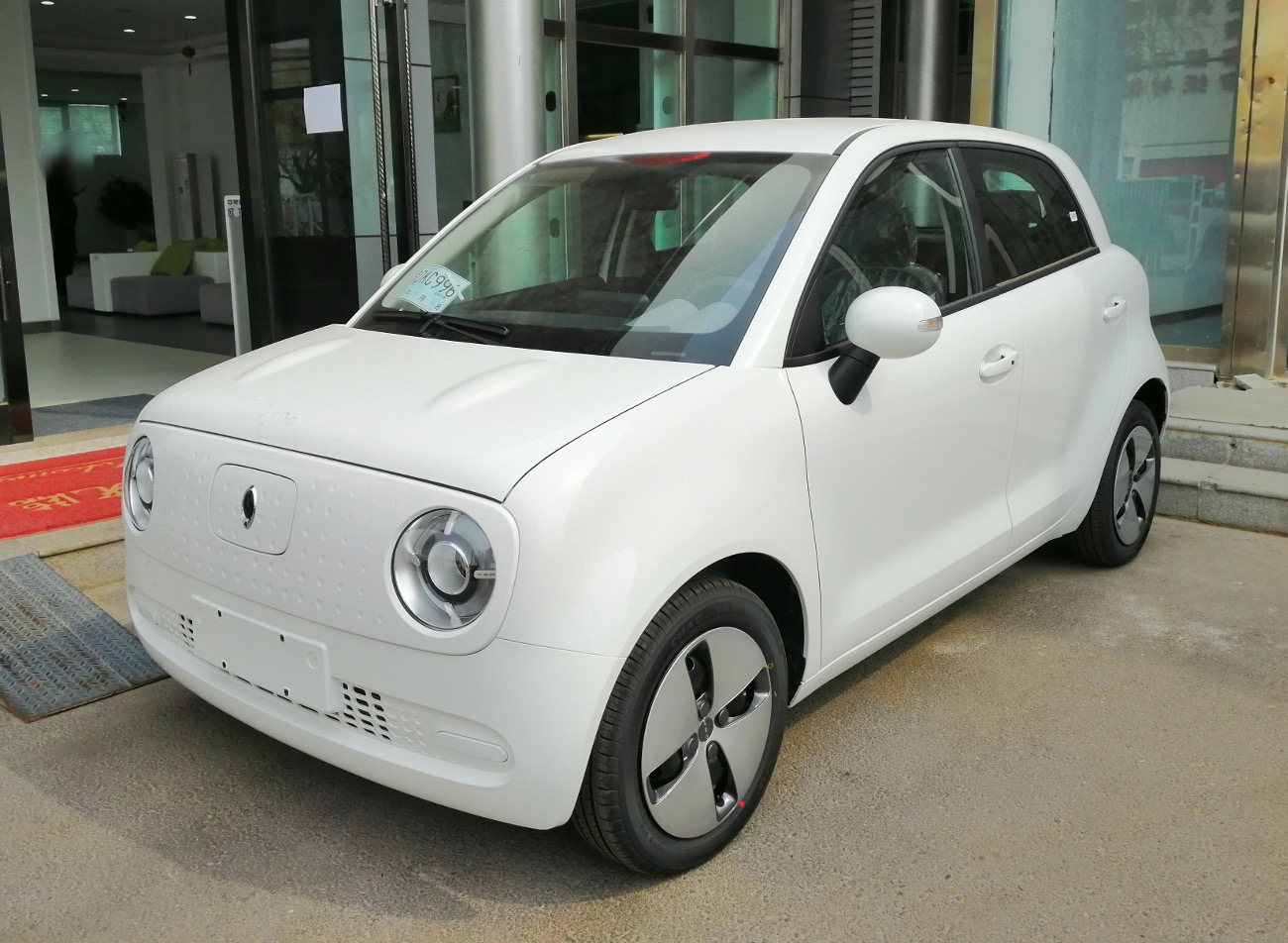 ORA R1 photographed in Beijing, China.